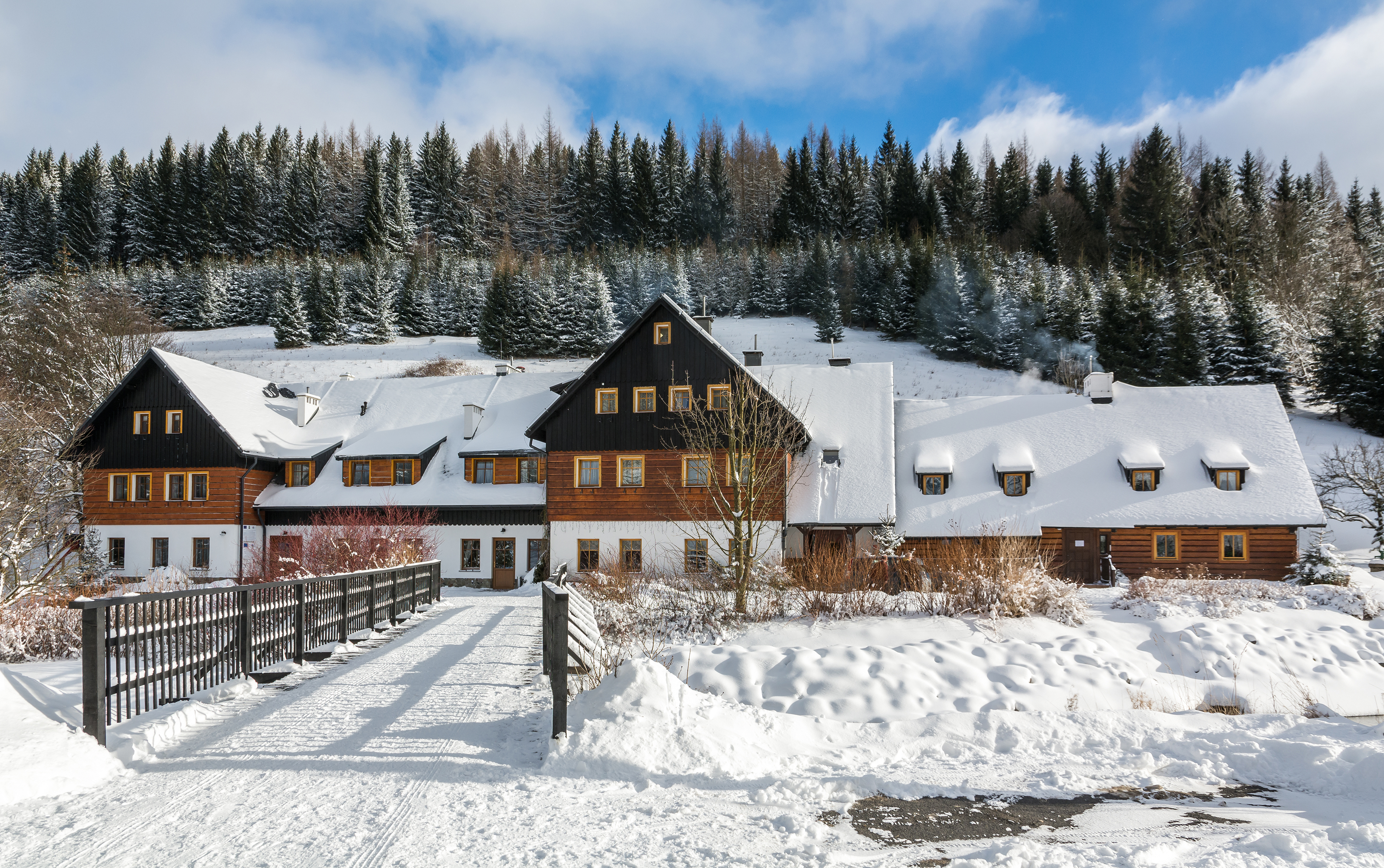 Chata Cyborga in Bielice